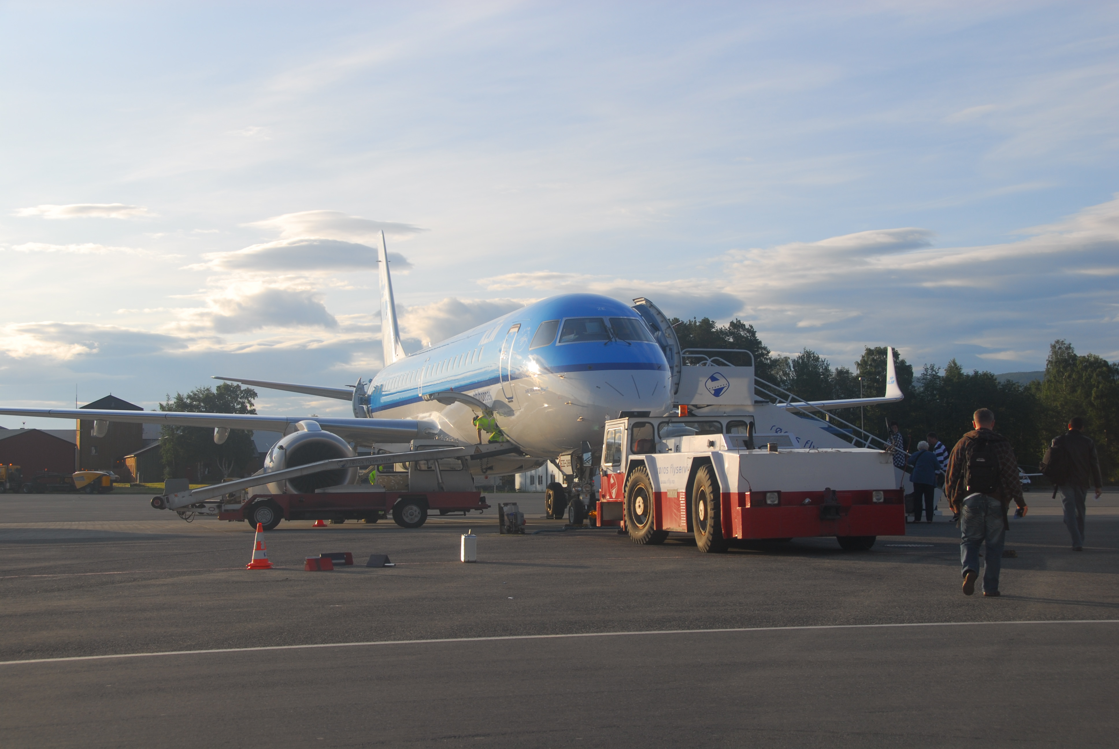 A KLM Cityhopper Embraer 190 aircraft boarding passengers at Terminal B at Trondheim Airport, Værnes.